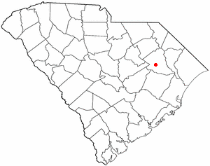 American Family Physicians Archives of Dermatology Journal of Endodontics Journal of Pediatric Journal of Pediatric Surgery Journal of the American Academy fo Child & Adolescent Psychiatry Neurosurgery Clinics of North America Orthopedic Clinics of North America Otolaryngologic Clinics of North America Pediatrics Pediatrics in Review Plastic and Reconstructive Surgery Radiology The Lancet